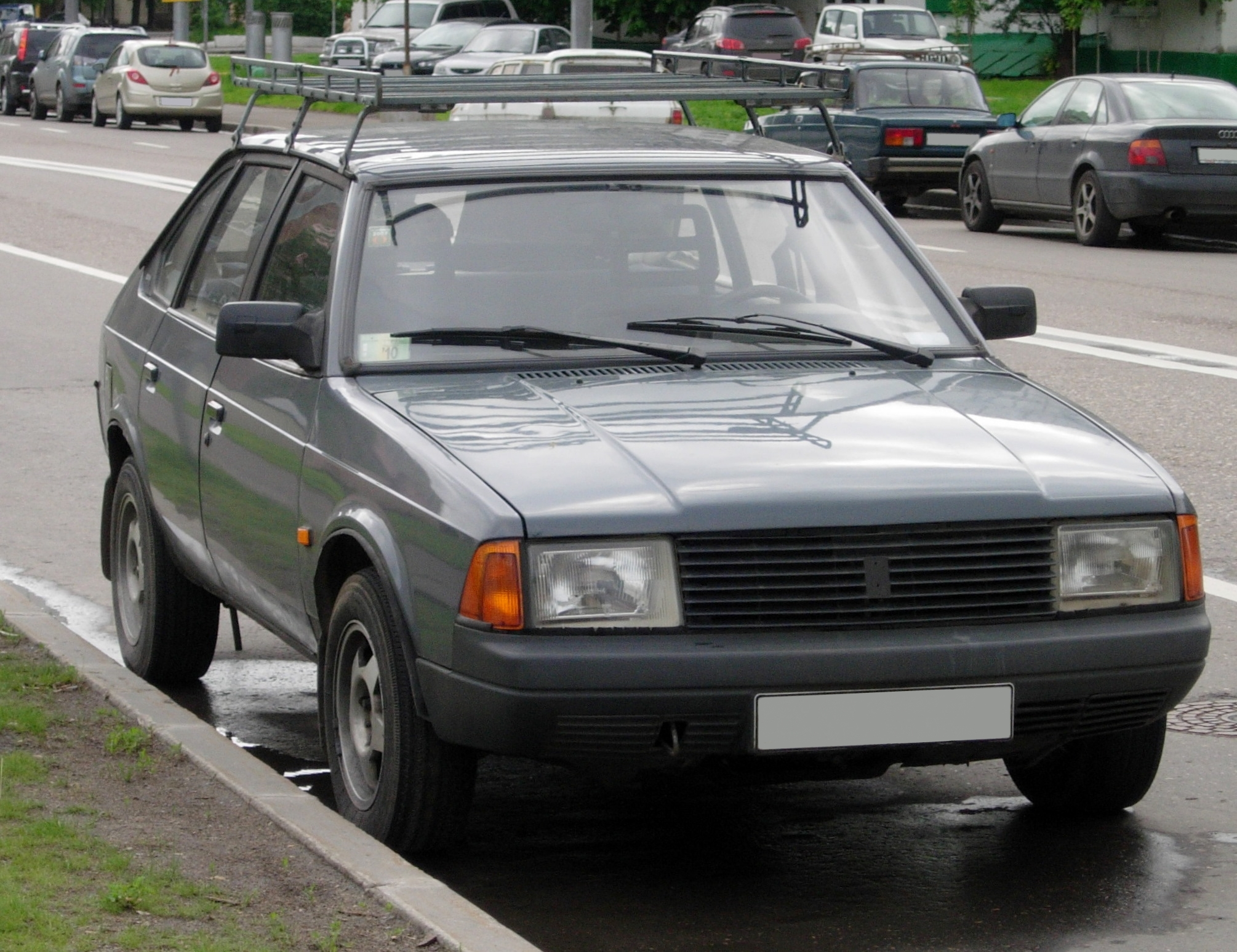 For Moskvitch, Aleko was innovative, having front-wheel drive, a hatchback body style, McPherson strut front suspension and torsion-crank rear suspension. The wheelbase went up almost 20 centimetres (7.9 in), the body got 14 centimetres (5.5 in) wider, the wheel size went up one inch (14 inches). The car became more spacious, comfortable and safe. For the first time in the history of Russian car making, the car's profile was optimized for aerodynamics, with the help of Russian and French aircraft and space engineers. More info about M-2141 in Wikipedia